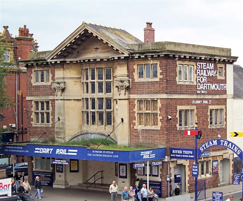 Torbay Picture House in Paignton.